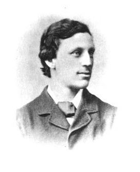 Frontispiece to L.L.F.R.Price, Industrial Peace: Its Advantages, Methods And Difficulties, London, Macmillan and Company (1887)